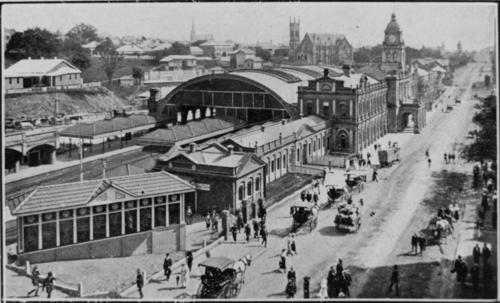 Central Railway Station from Edward Street in 1910